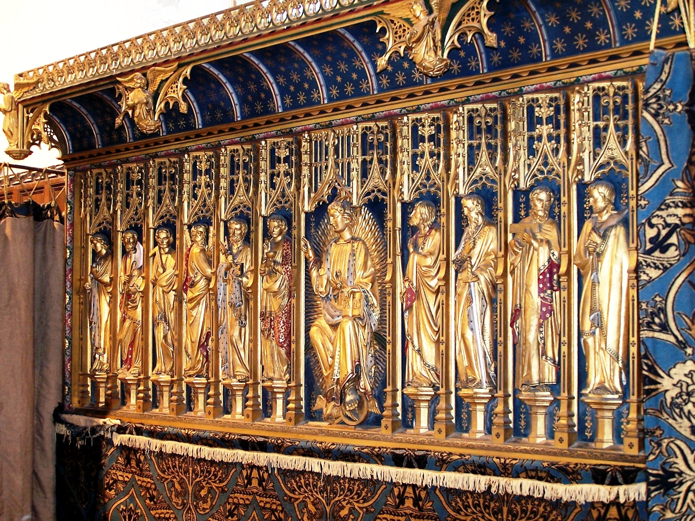 Detail of Reredos at St James Church, High Melton, by Ninian Comper